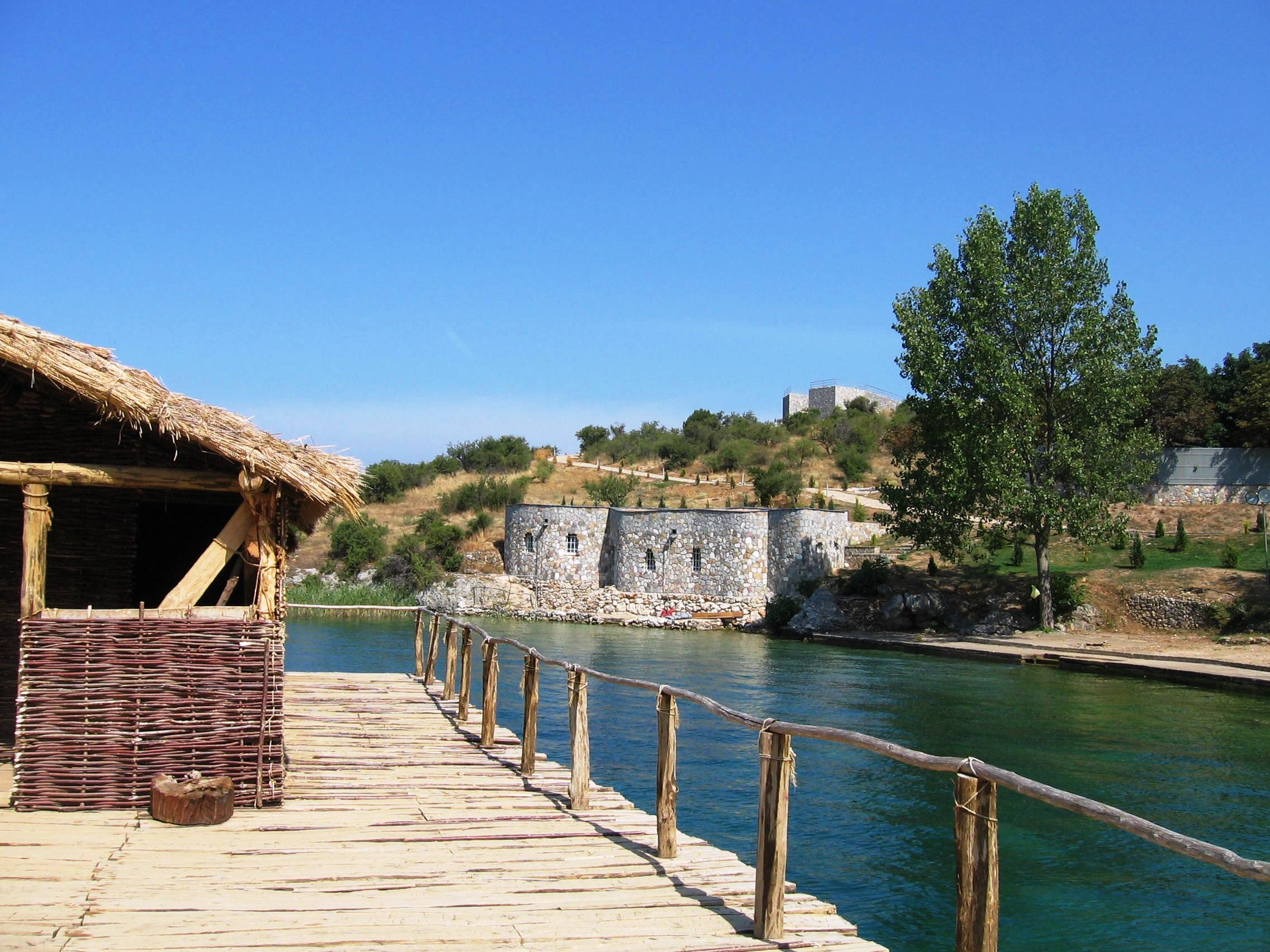 Water Museum - Bay of Bones on Ohrid lake, overlooking the Museum and Roman Fort